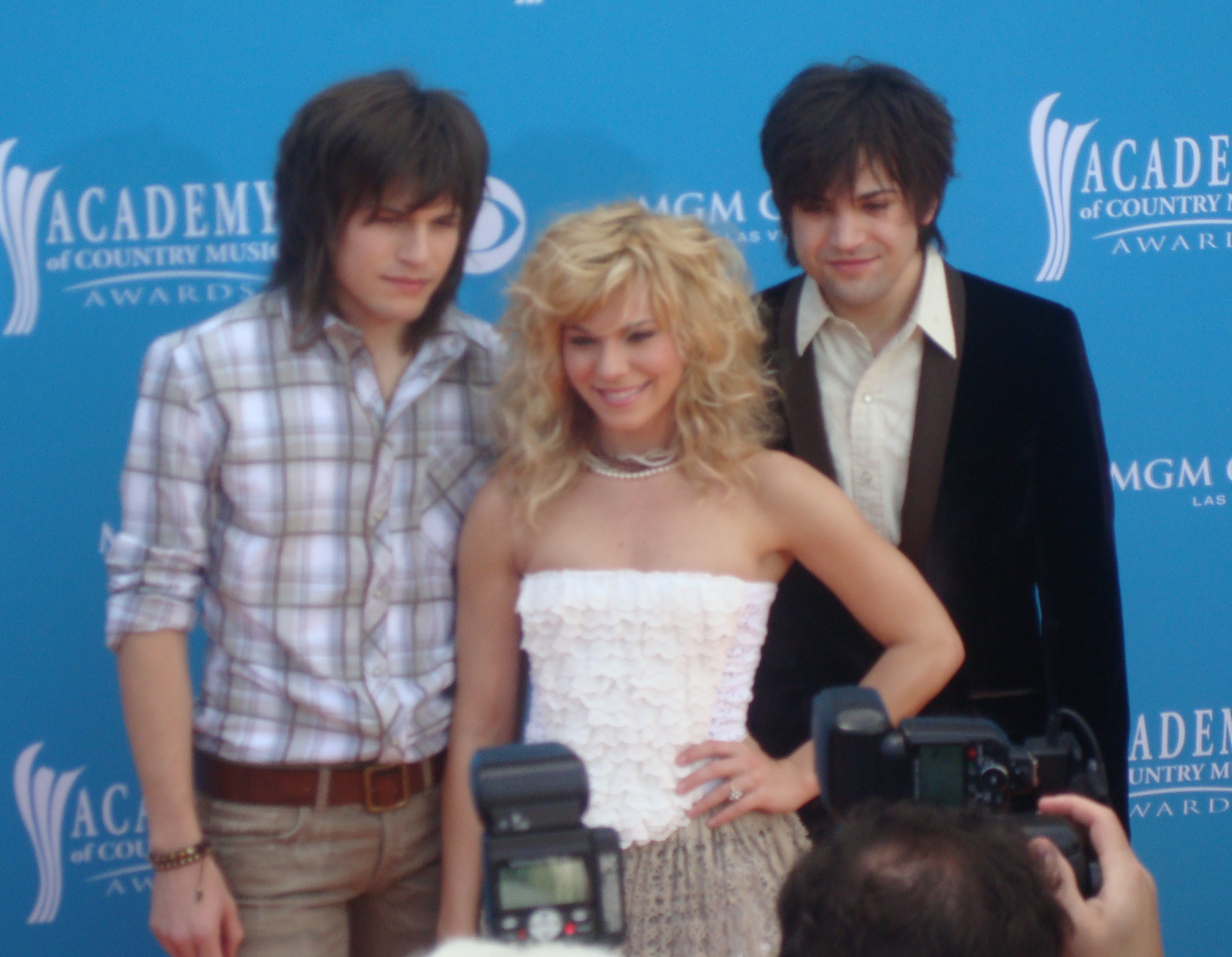 The Band Perry. Reid, Kimberly and Neil.